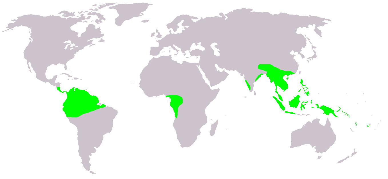 A range map of Gnetum